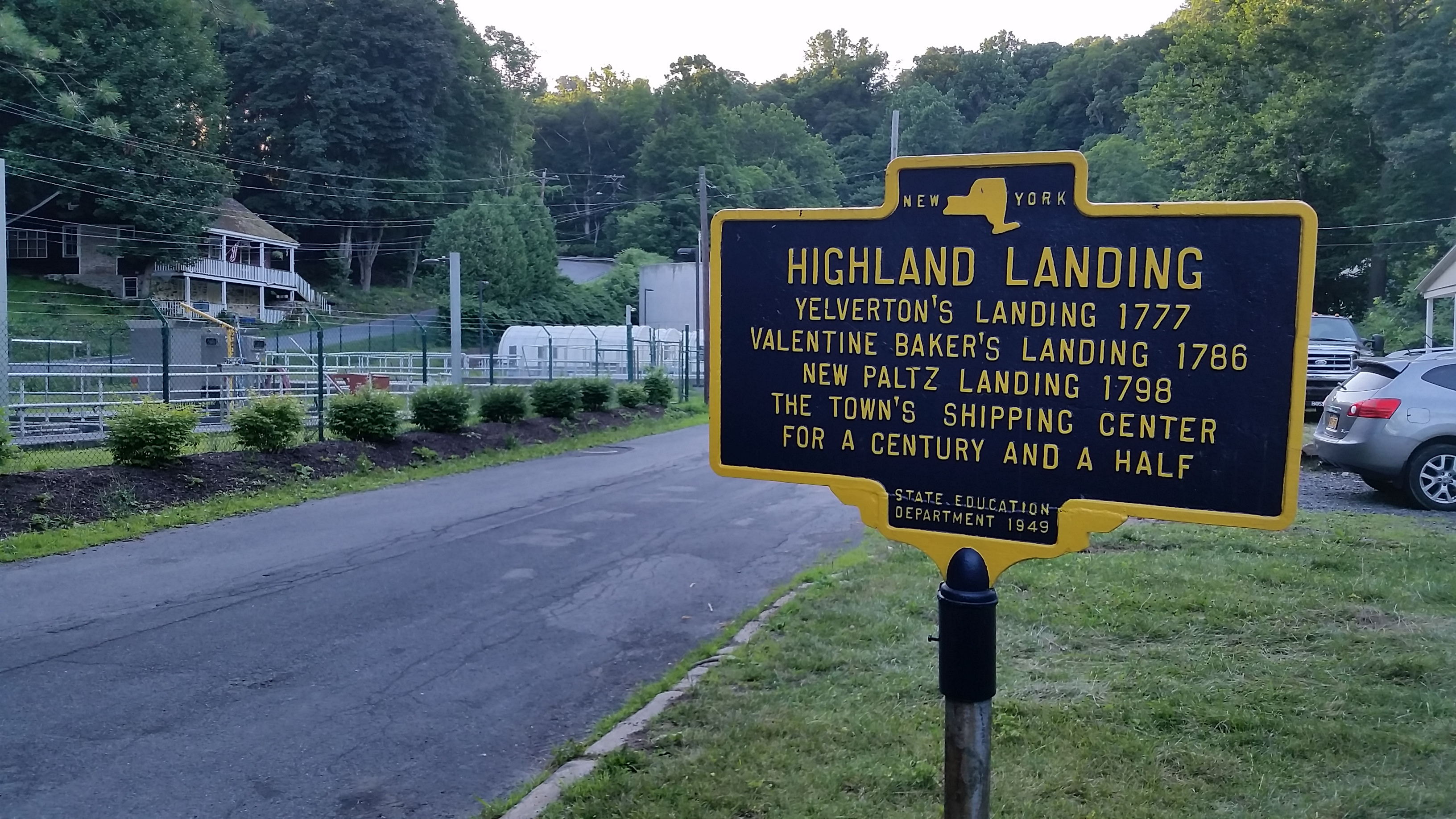 New York State Historical Marker for Highland Landing in Highland, NY. This shows the east side of the marker. On the left is the en: Anthony Yelverton House